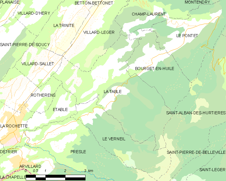 Map of French municipality La Table